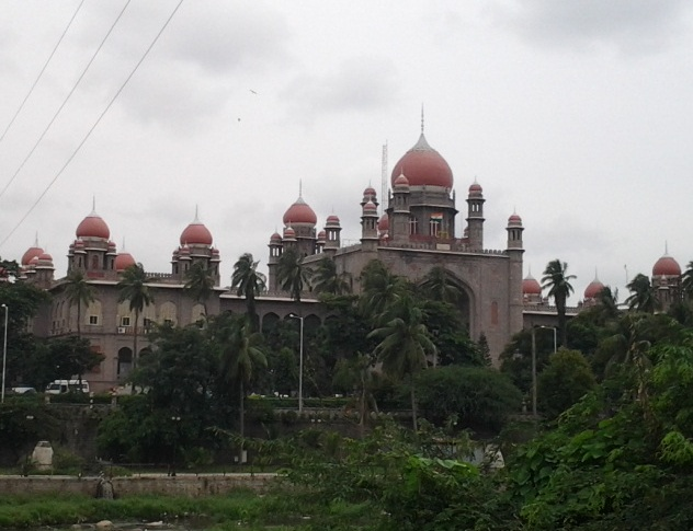 A view of Andhra Pradesh High Court building.